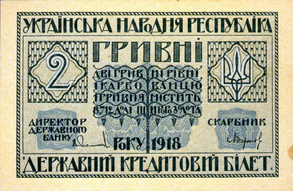 Front of the 2 Hryvnia credit banknote, designed by Ukrainian artist Vasyl Krychevsky in 1918 for the Ukrainian People's Republic.